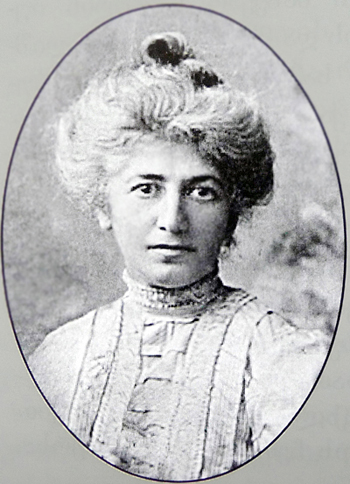 Writer Nino Nakashidze, (1872-1963)